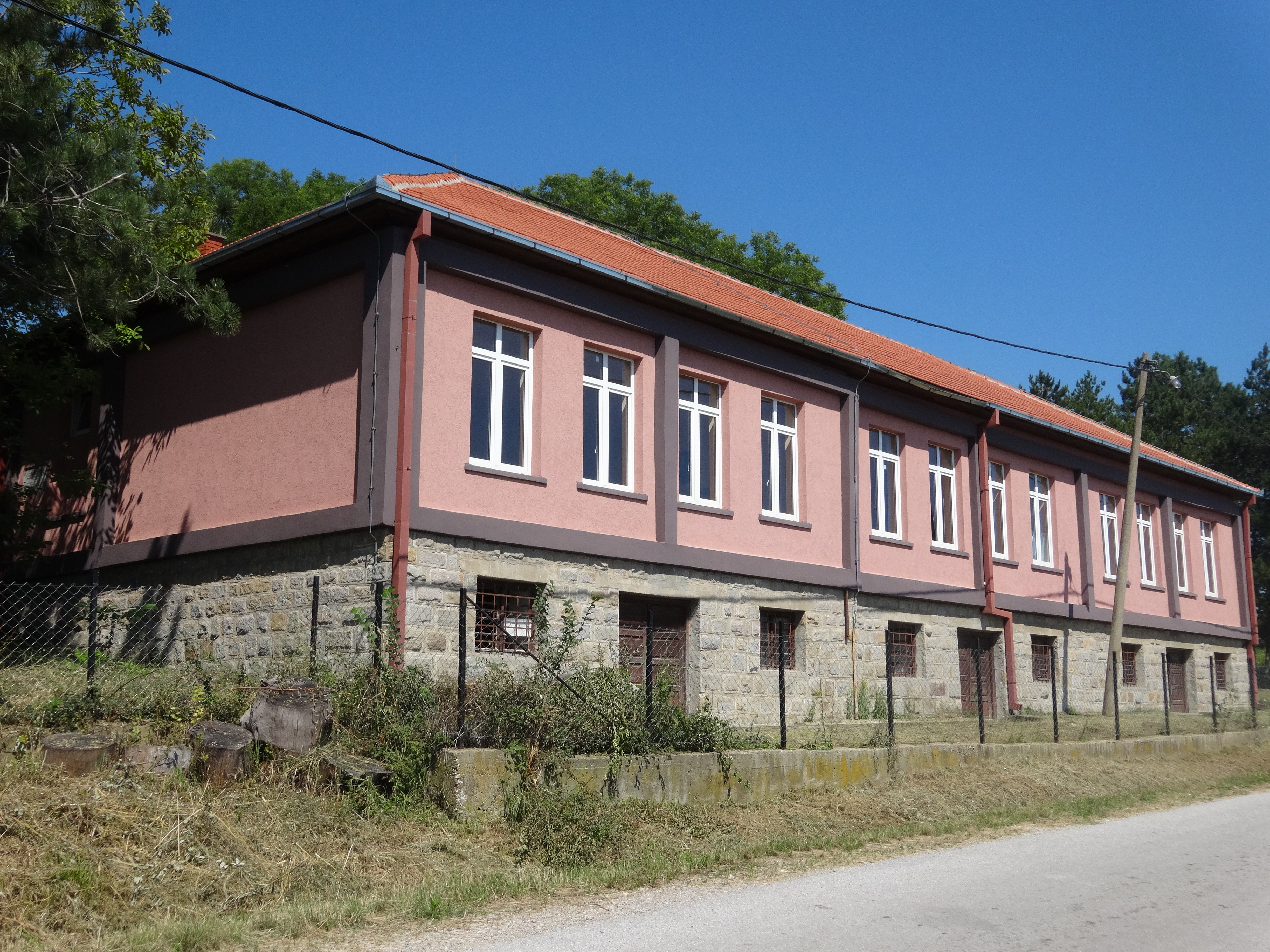 Vračević, Elementary school Mile Dubljević